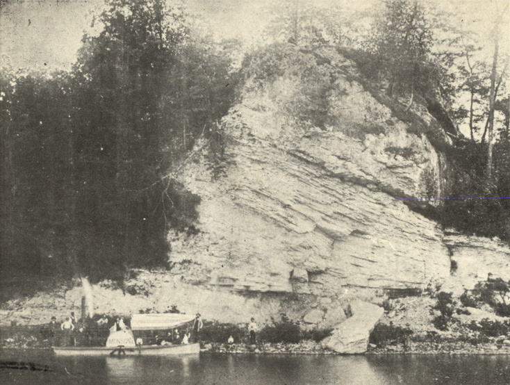 This is an image of Hanging Rock on the Wabash River in Wabash County, Indiana, near the town of Lagro. It was cropped from a scanned image of a postcard published before 1923 by M.G. Callahan in Marion, Indiana. The site is now a National Natural Landmark named "Hanging Rock and Wabash Reef." It consists of two, one-acre sites along the south bank of the Wabash River that contain natural exposures of Silurian limestone reef deposits.